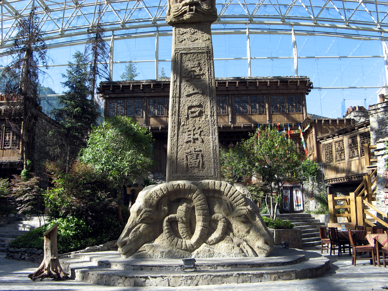 TaishanShigandang at Jiuzhai Heaven Hotel, in Jiuzhaigou, Sichuan, China